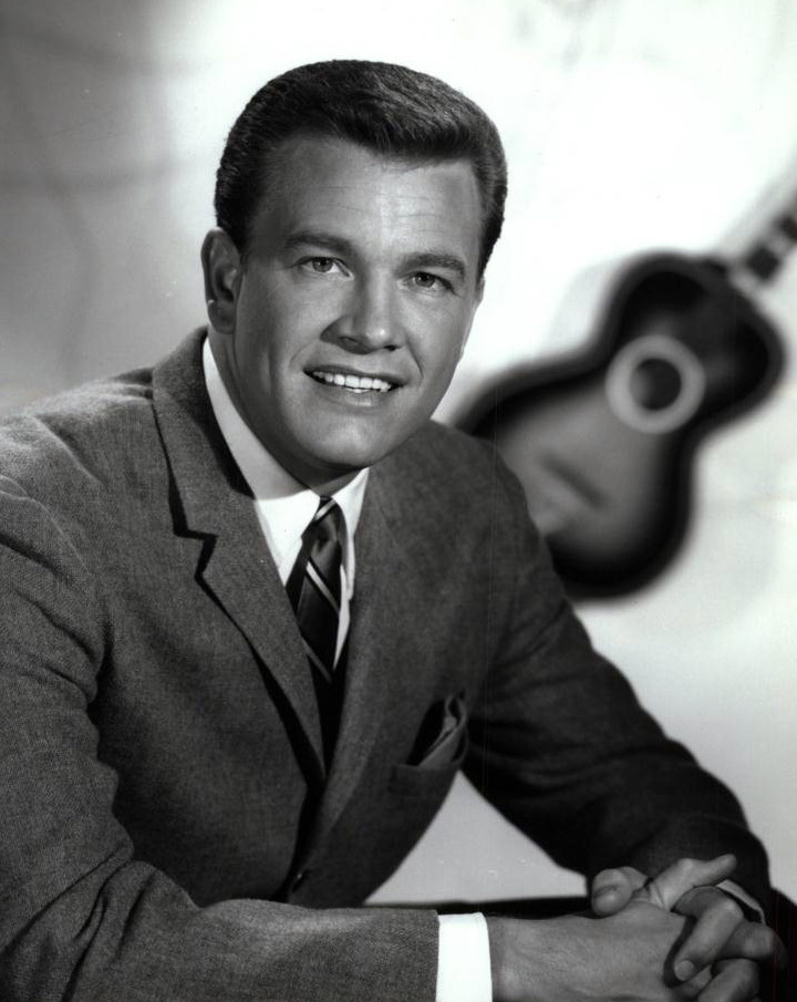 Publicity photo of game show host Wink Martindale from the television program What's This Song?